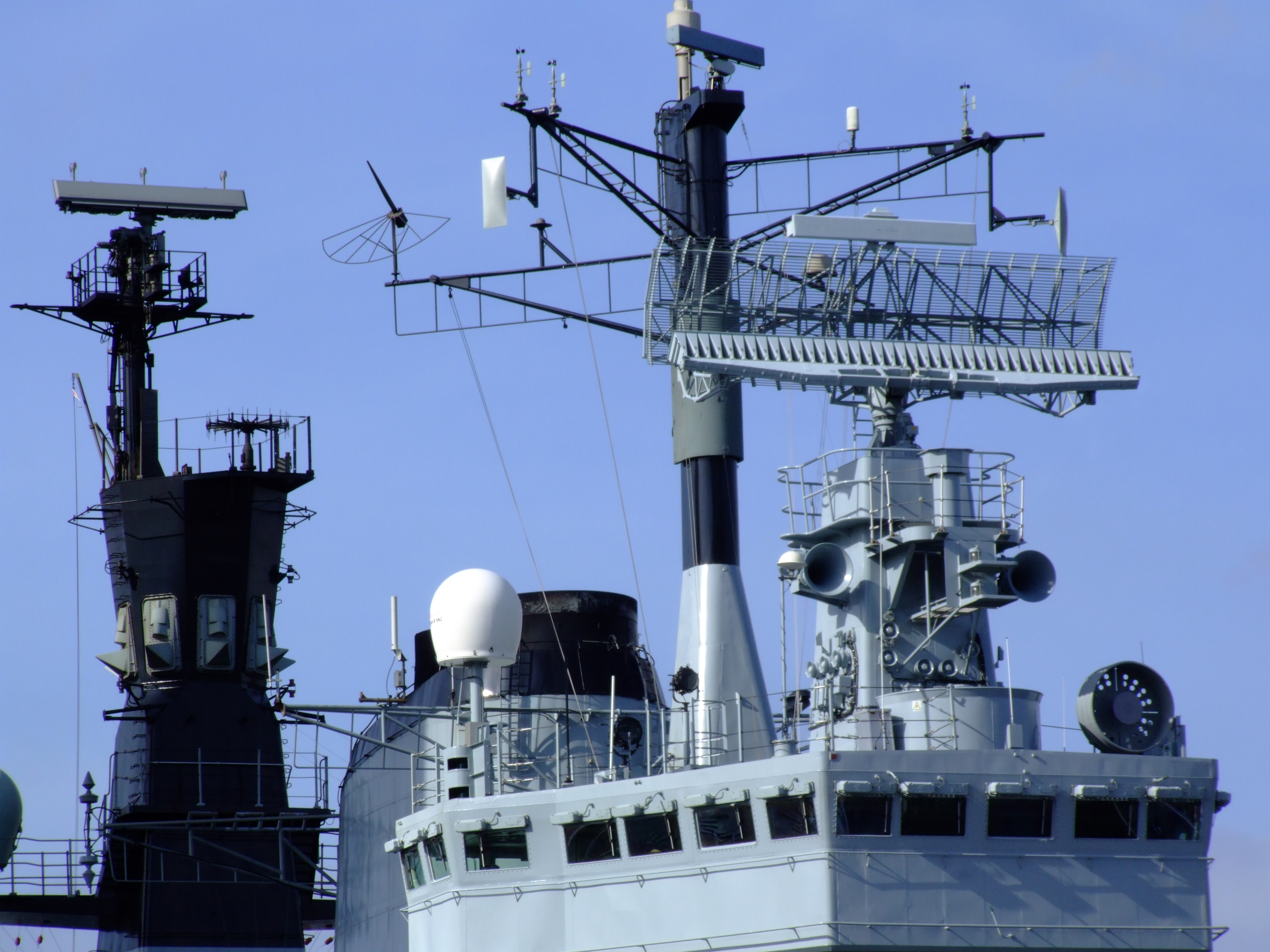 R07 HMS Ark Royal, IJ harbour, Port of Amsterdam.